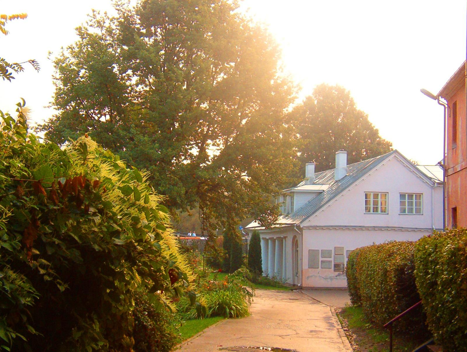 Tartu, 2005. Botanical Garden of the University of Tartu.